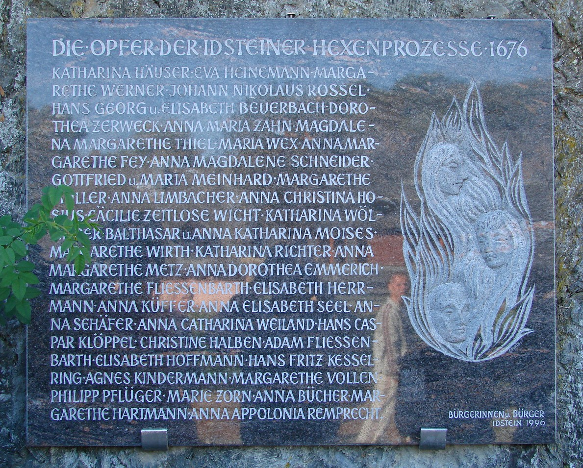 Idstein, Germany, memorial plate for the victims of the witch trials in 1676